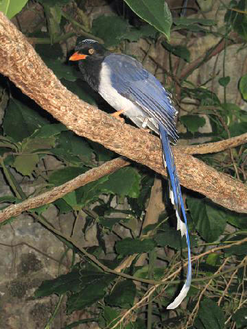 Description: Blue Magpie - Source: own work - Location: Bronx Zoo, New York - Author: self, User:Stavenn